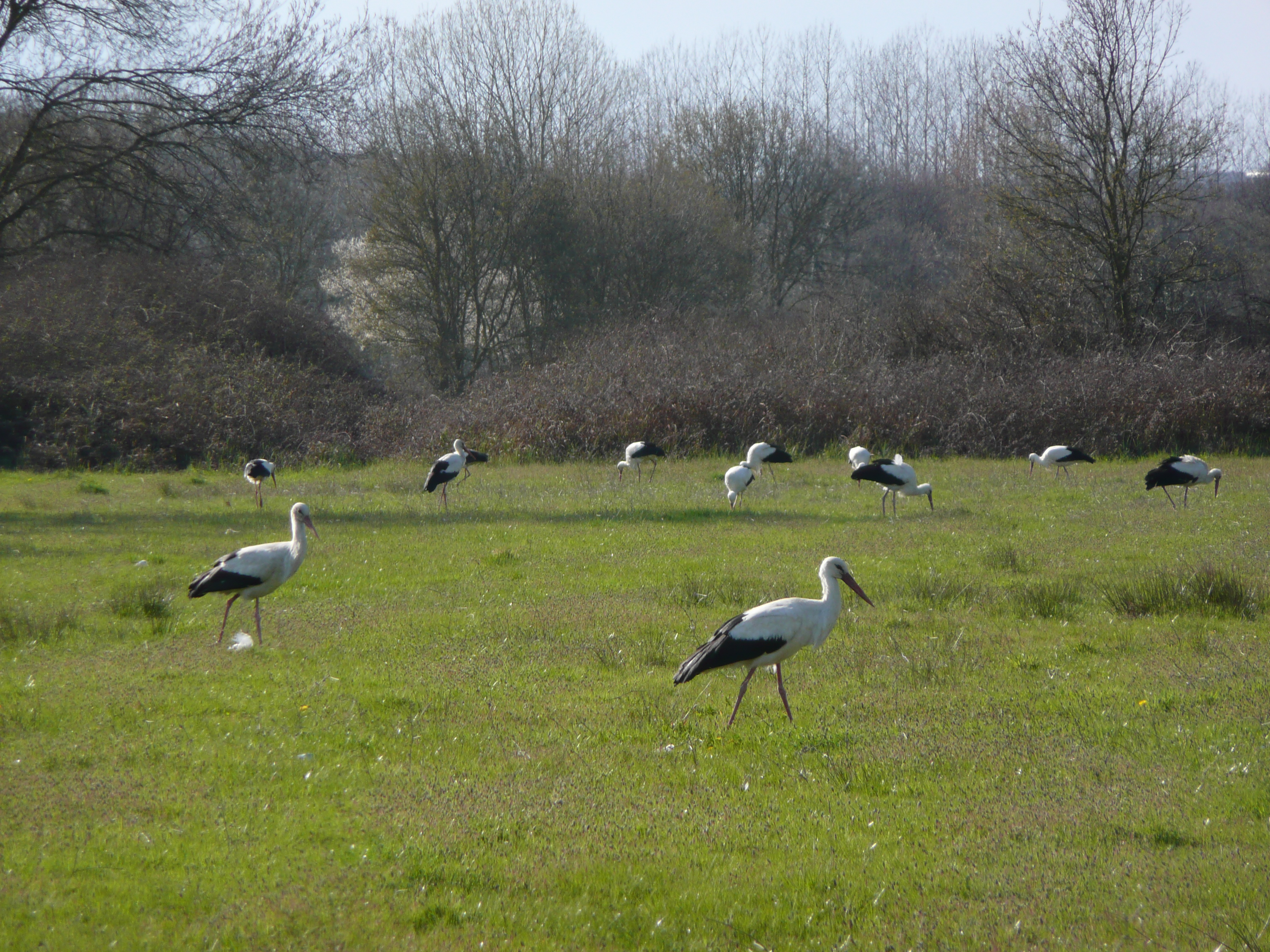 White Storks foraging for food at Sırapınar, Istanbul, Turkey.